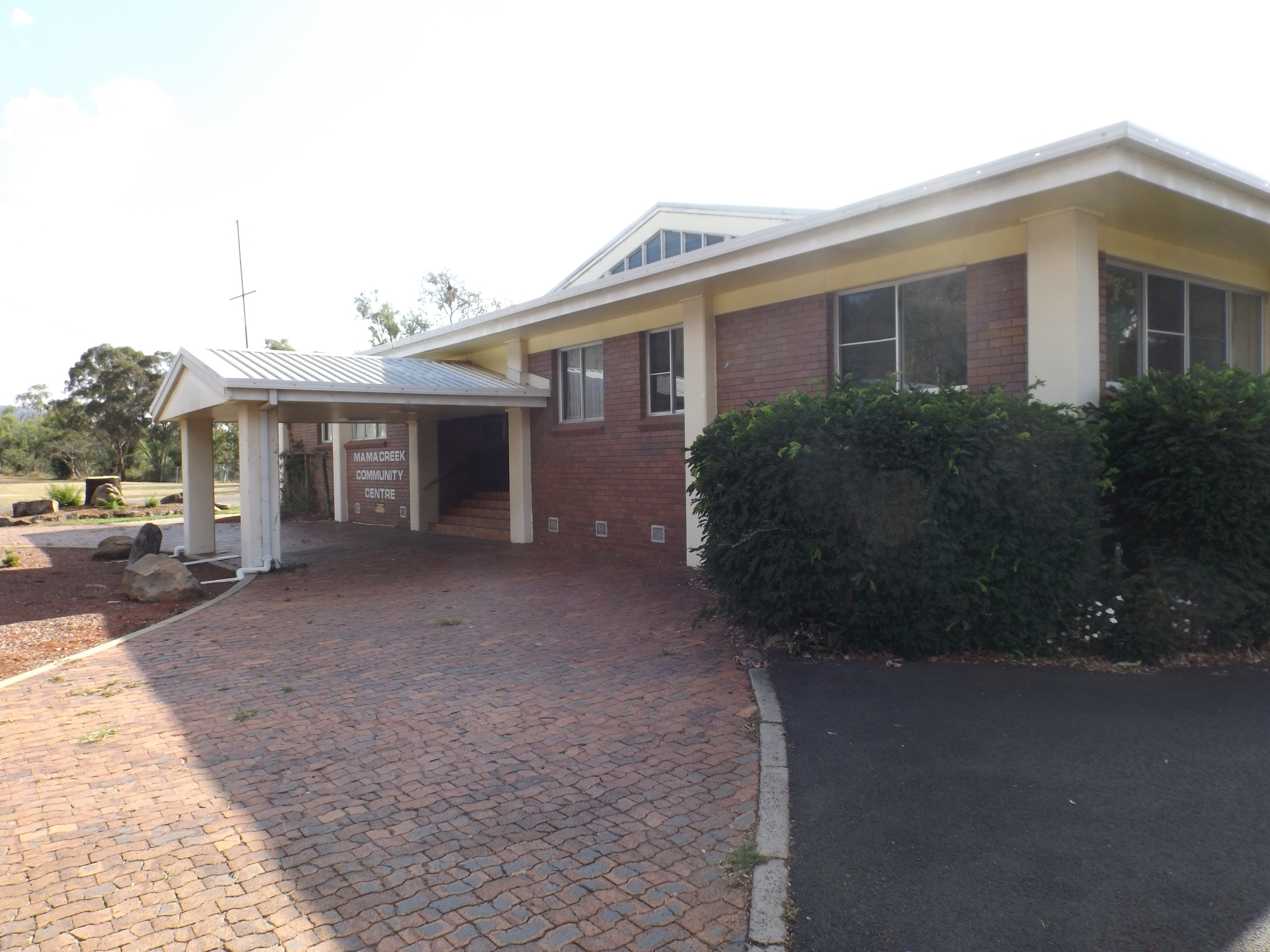 Photo of Ma Ma Creek Community Centre at Ma Ma Creek, Queensland, Australia.